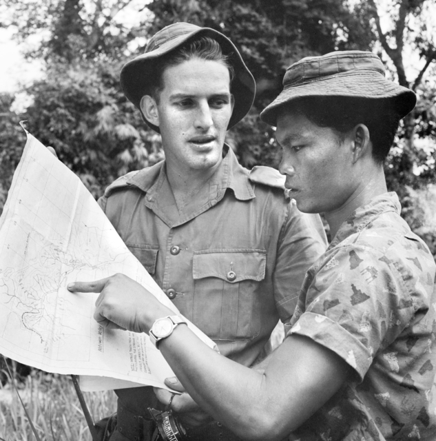 18597 Lieutenant (Lt) Edward M (Ted) Heslin, of Chapple Hill, Qld (left), 24 Construction Squadron, Royal Australian Engineers (RAE), consulting a map of the state of Sabah with Michael U Adin (right), a Murut tribesman, who has been engaged by the Army as an interpreter and guide. Lt Heslin is leading the advance road building section as it clears the way for the main road building group following some way behind.